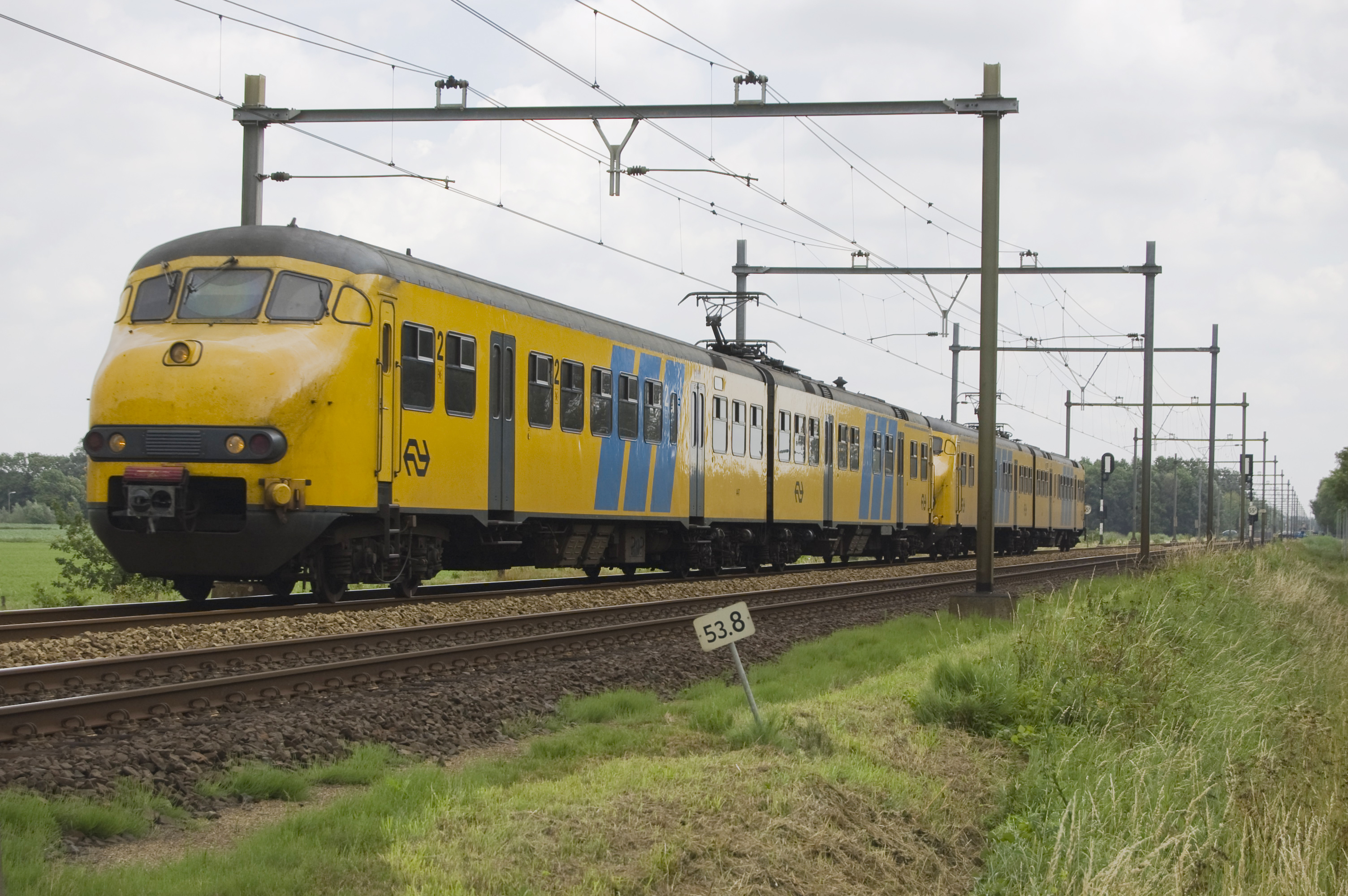 Dutch trains 447 (built 1969) & 478 (built 1969) type Plan V leaving Wijchen for Ravenstein on the 23 June 2011. Since the 4th of April 2011 this 40 year old trains are not common anymore in the commuter service between Nijmegen and Deurne because they are replaced with the newer SGMm type.